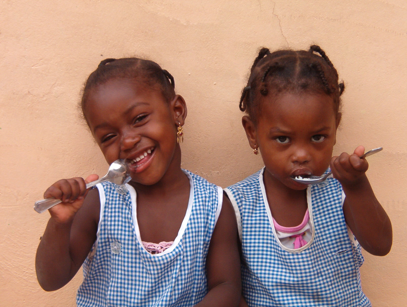 Cape verdean kids eating mid-morning snack in the kindergarten. Santiago island, Cape Verde